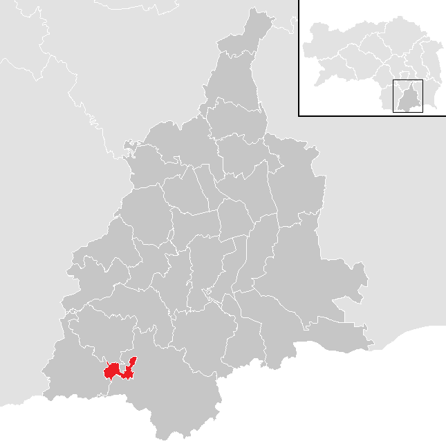 District Leibnitz